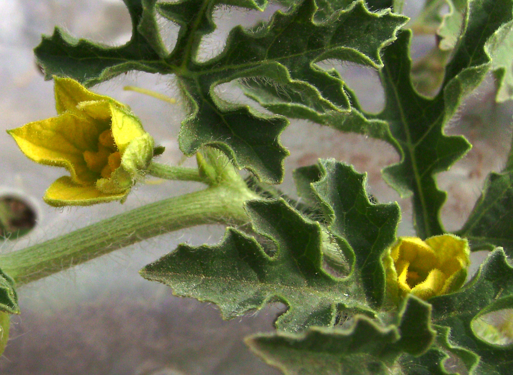 Citrullus lanatus,flowers, Castelltallat, Catalonia